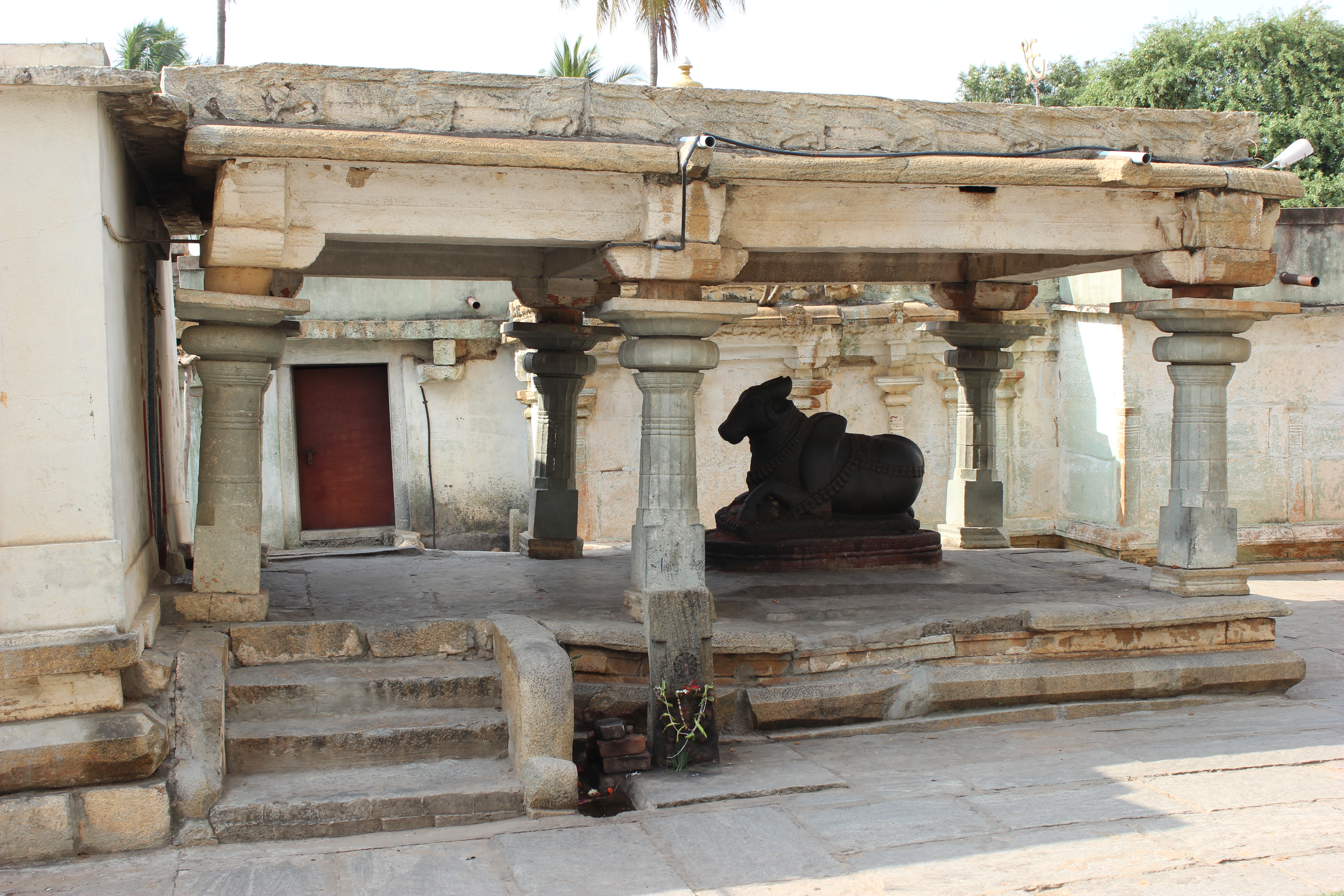 This photograph was taken by me at the Naganatheshvara (or Naganatheshwara) temple in Begur, a suburb of Bengaluru city (Bangalore) in Karnataka state, India. The complex contains multiple shrines and these show architectural features of the Western Ganga Dynasty of Talakad and later additions by the Chola Dynasty.